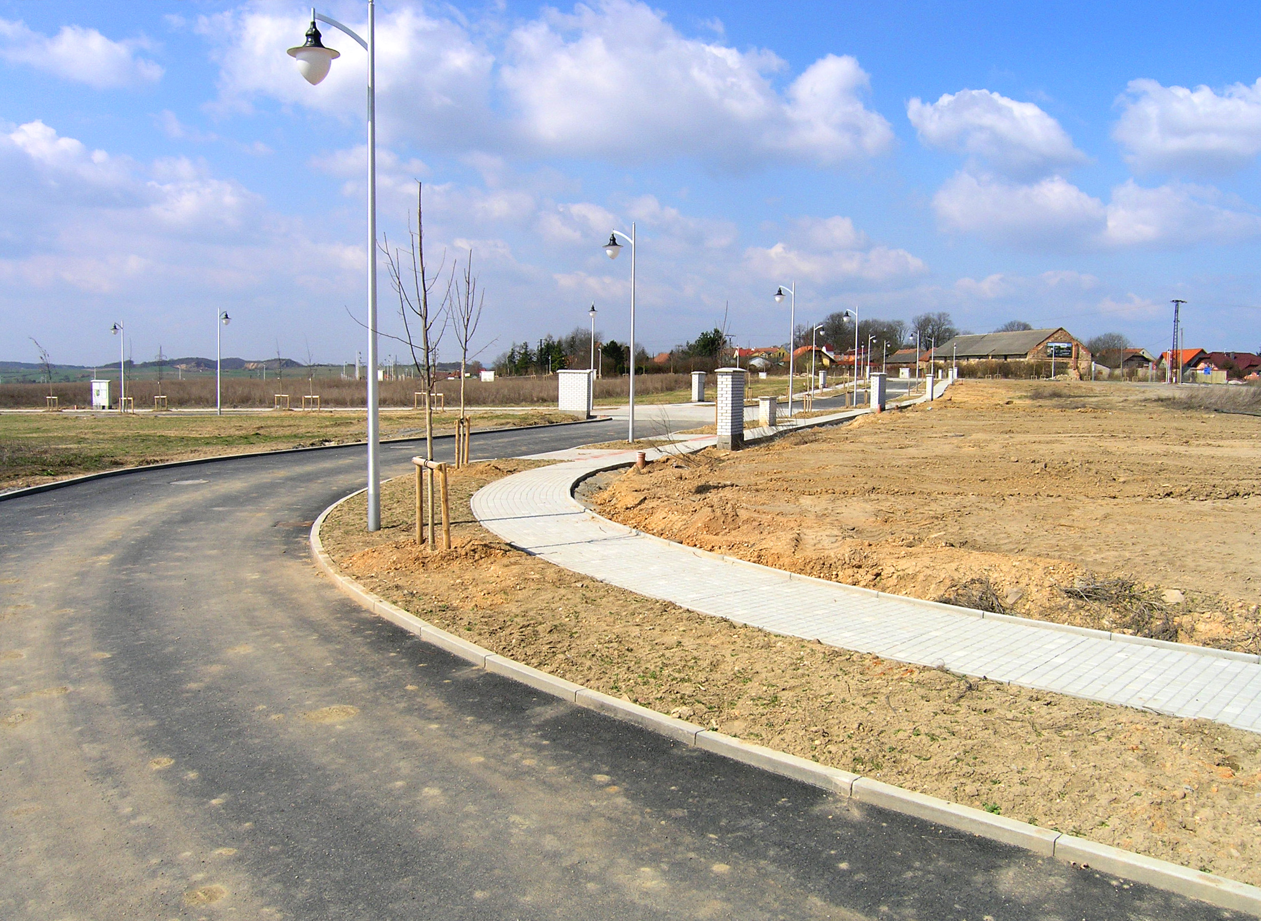 Housing in Vysoký Újezd, Czech Republic